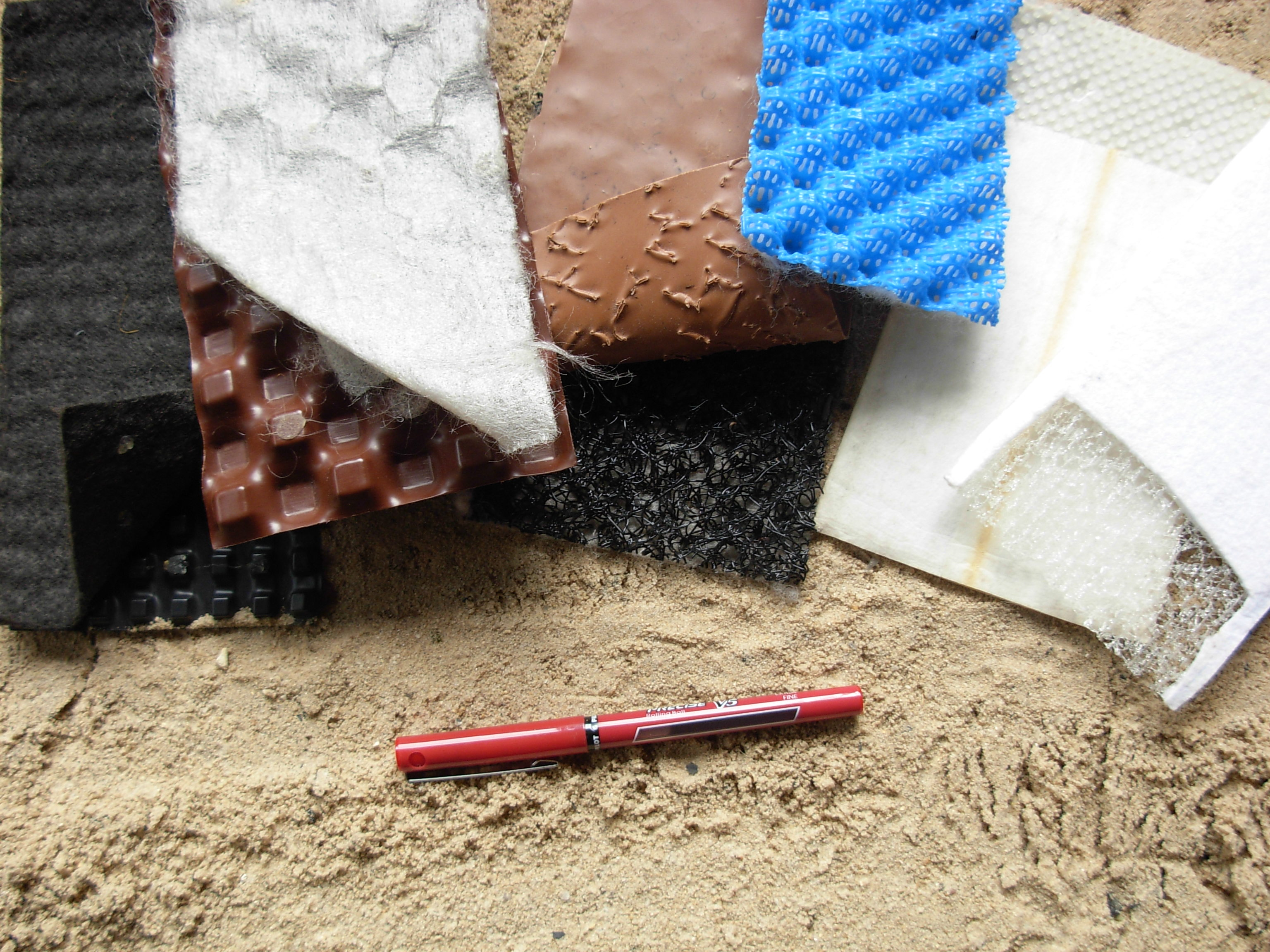 Geocomposites